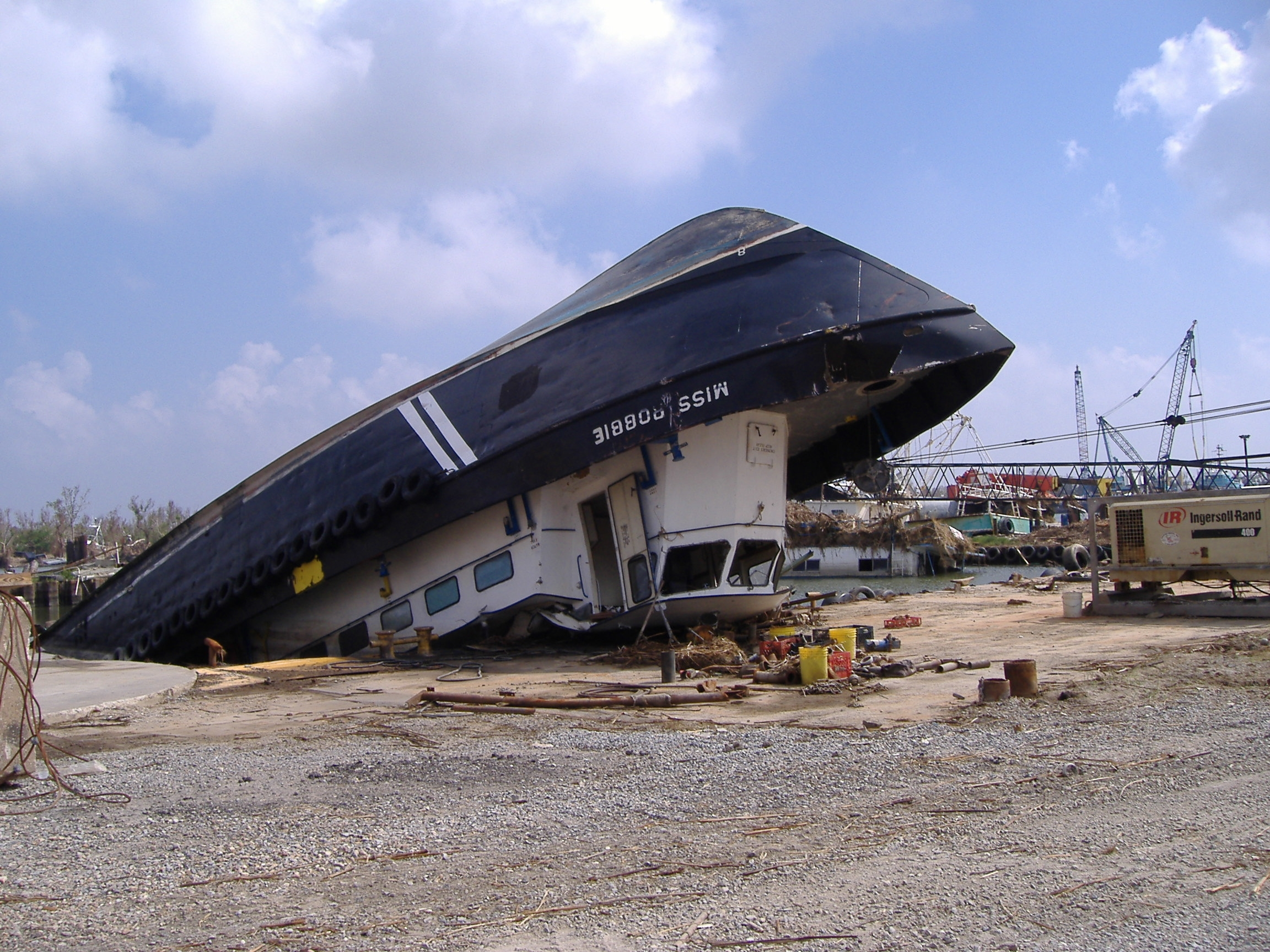 Crew boat upside down, half on and half off dock. Louisiana, Southeast coastal parishes. 2005 October 15.